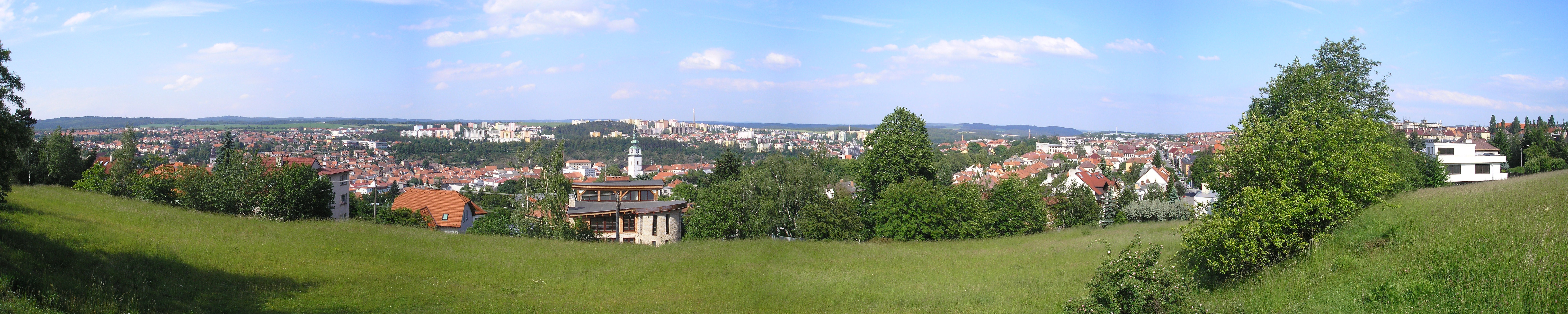 South panorama of Třebíč